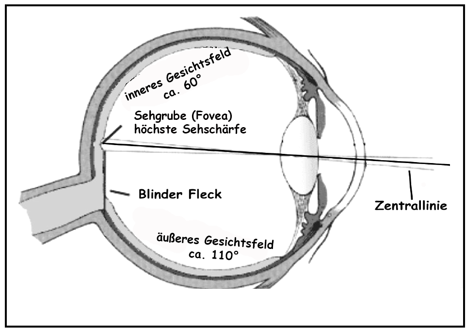 A standard horizontal section through the eye, with the visual axis shown and nasal and temporal retina pointed out